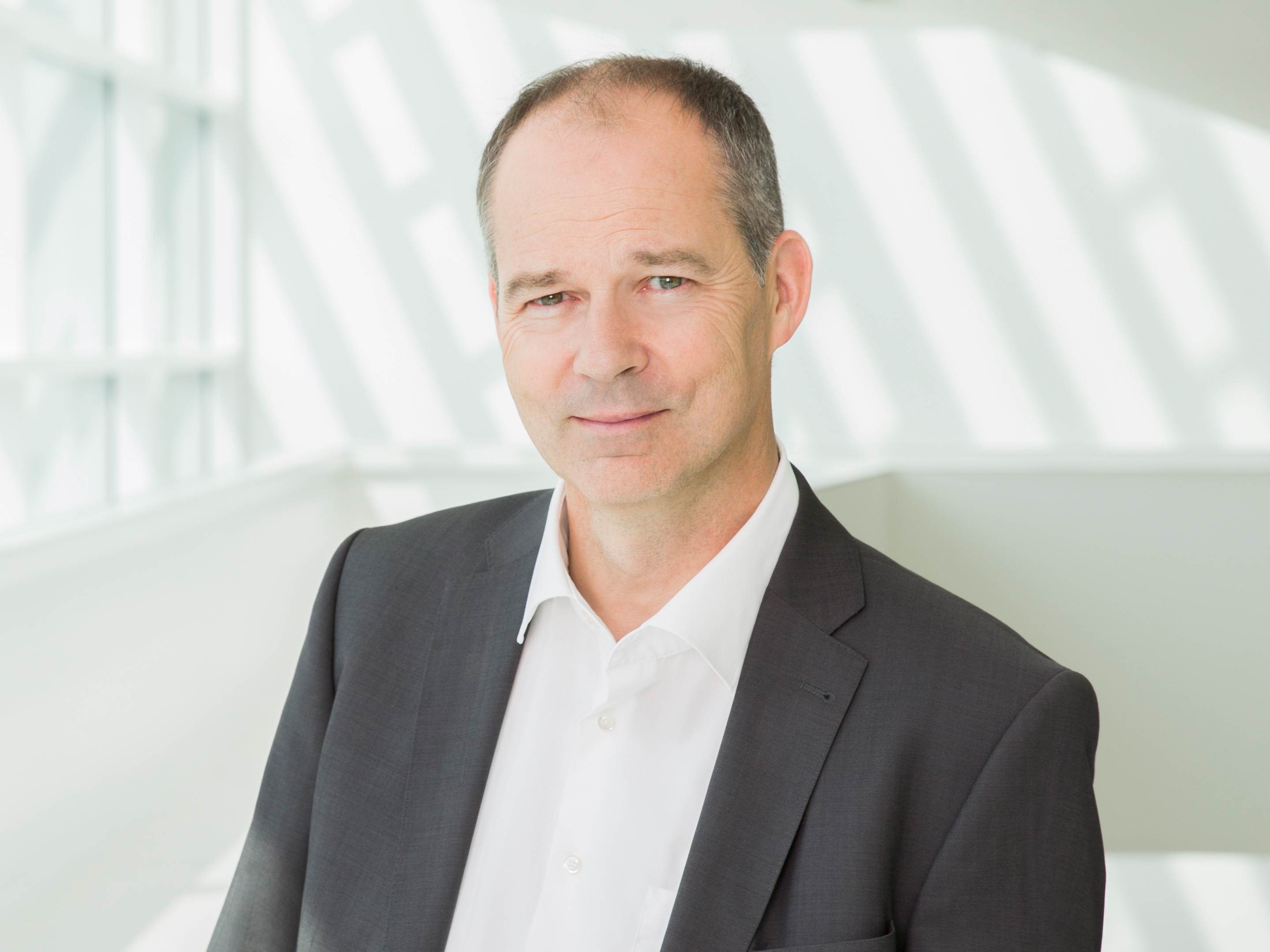 Portrait of Christoph Mohn